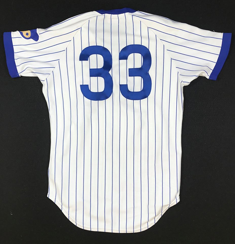 1973 Chicago Cubs #33 Bill Bonham game worn home jersey restored and photographed by William F. Henderson who may be contacted his his website thedream.shop.